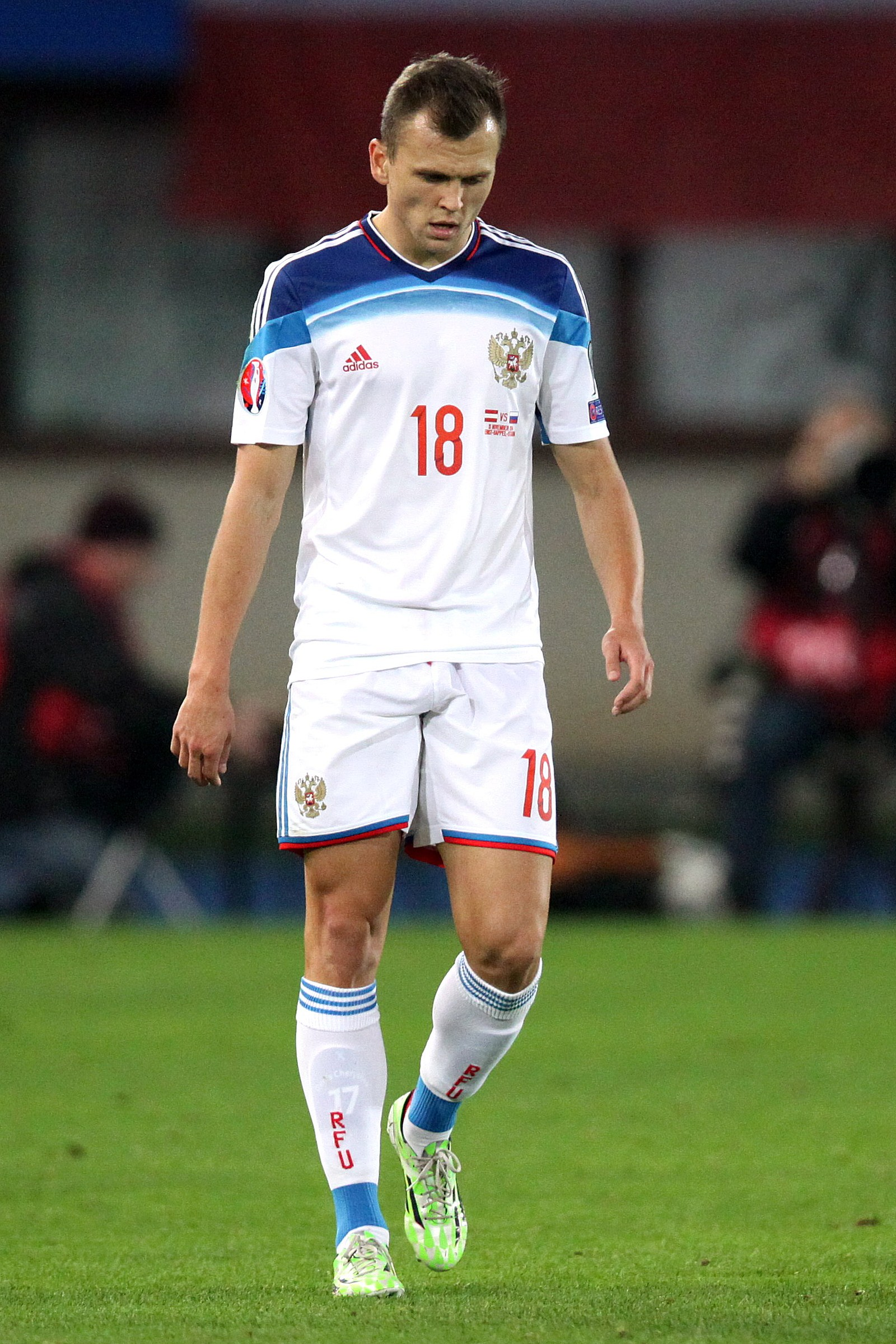 UEFA Euro 2016 qualifying: Austria vs. Russia (1:0 / 0:0) at 2014-11-15 in the Ernst-Happel-Stadion in Vienna. – The photo shows en: (Austria / Russia).